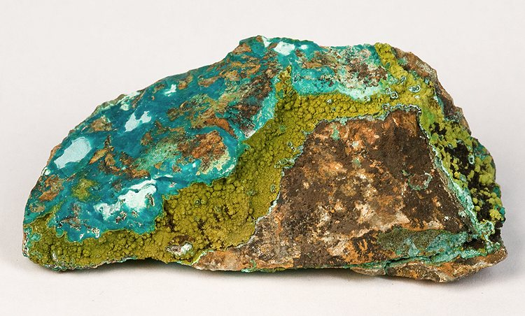 Mottramite, Chrysocolla Locality: Long Chance & Vanelmart Mine (Chance Mine; Long Chance Mine; Chance No. 4 claim), Chidago District, Benton Range Rare II Area, Mono County, California, USA (Locality at ) Size: 8.0 x 3.0 x 3.4 cm. A visually striking, 3-dimensional specimen richly covered on all sides with a very uncommon combination of mineral species from the less well-known Chance Mine of Mono County, California. Eye-catching patterns of turquoise-blue and powder-blue chrysocolla crusts are adjacent to starkly contrasting, bubbly crusts of olive-green mottramite. This is a fantastic combination of colors. Rare material from this former lead-silver mine, and perhaps among the best of the species for a US locality. Ex. Wesley Stark Collection.